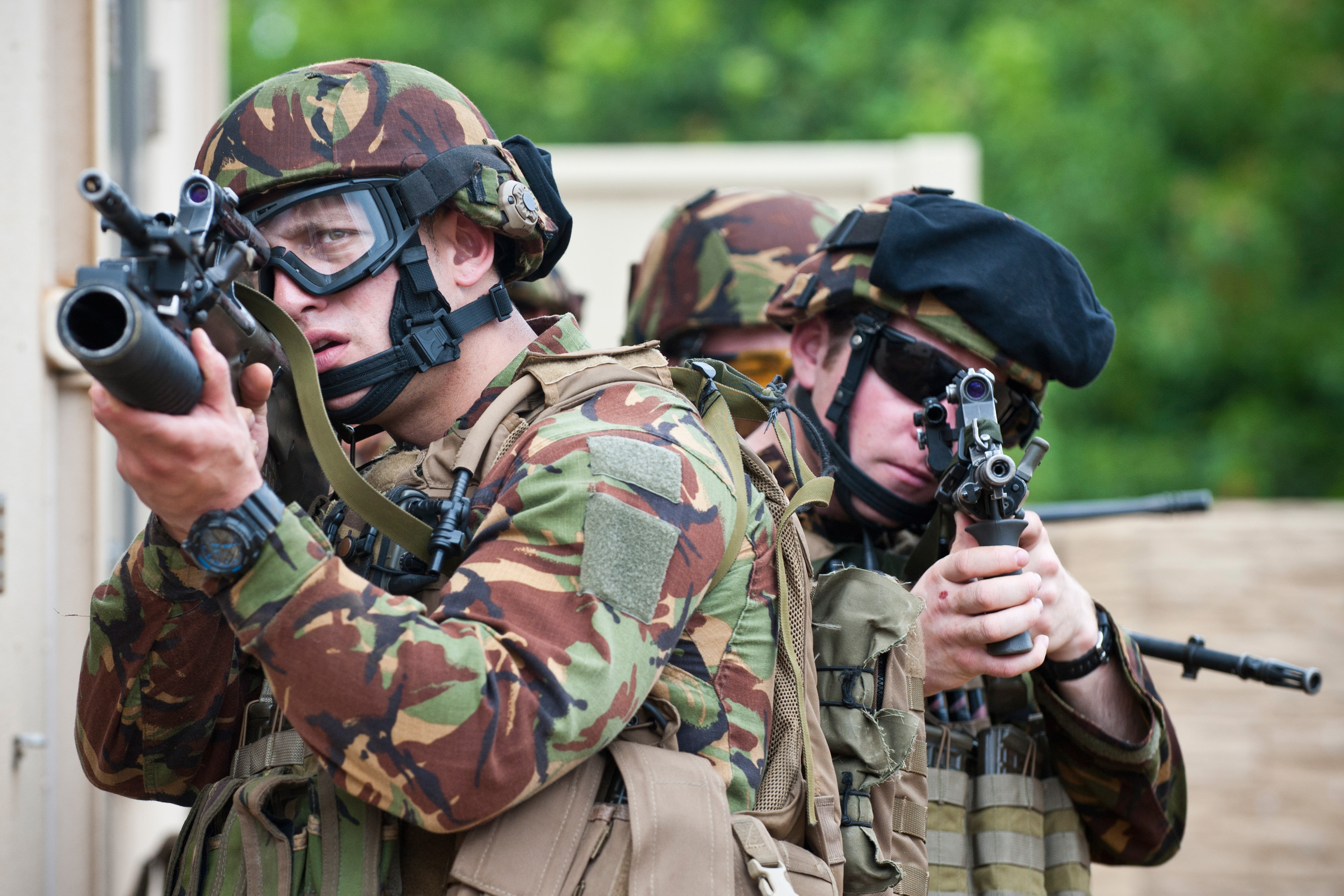 MARINE CORPS BASE HAWAII (June 28, 2012) New Zealand Army soldiers from Alpha Company clear buildings as part of the Military Operations Urban Training (MOUT). Alpha Company is hosted by the 1st Battalion, 3rd Marine Regiment, during the Rim of the Pacific (RIMPAC) 2012 exercise. Twenty-two nations, more than 40 ships and submarines, more than 200 aircraft and 25,000 personnel are participating in RIMPAC exercise from Jun. 29 to Aug. 3, in and around the Hawaiian Islands. The world's largest international maritime exercise, RIMPAC provides a unique training opportunity that helps participants foster and sustain the cooperative relationships that are critical to ensuring the safety of sea lanes and security on the world's oceans. RIMPAC 2012 is the 23rd exercise in the series that began in 1971. (New Zealand Defense Force photo by LAC Amanda McErlich/Released) 120628-O-ZZ999-011